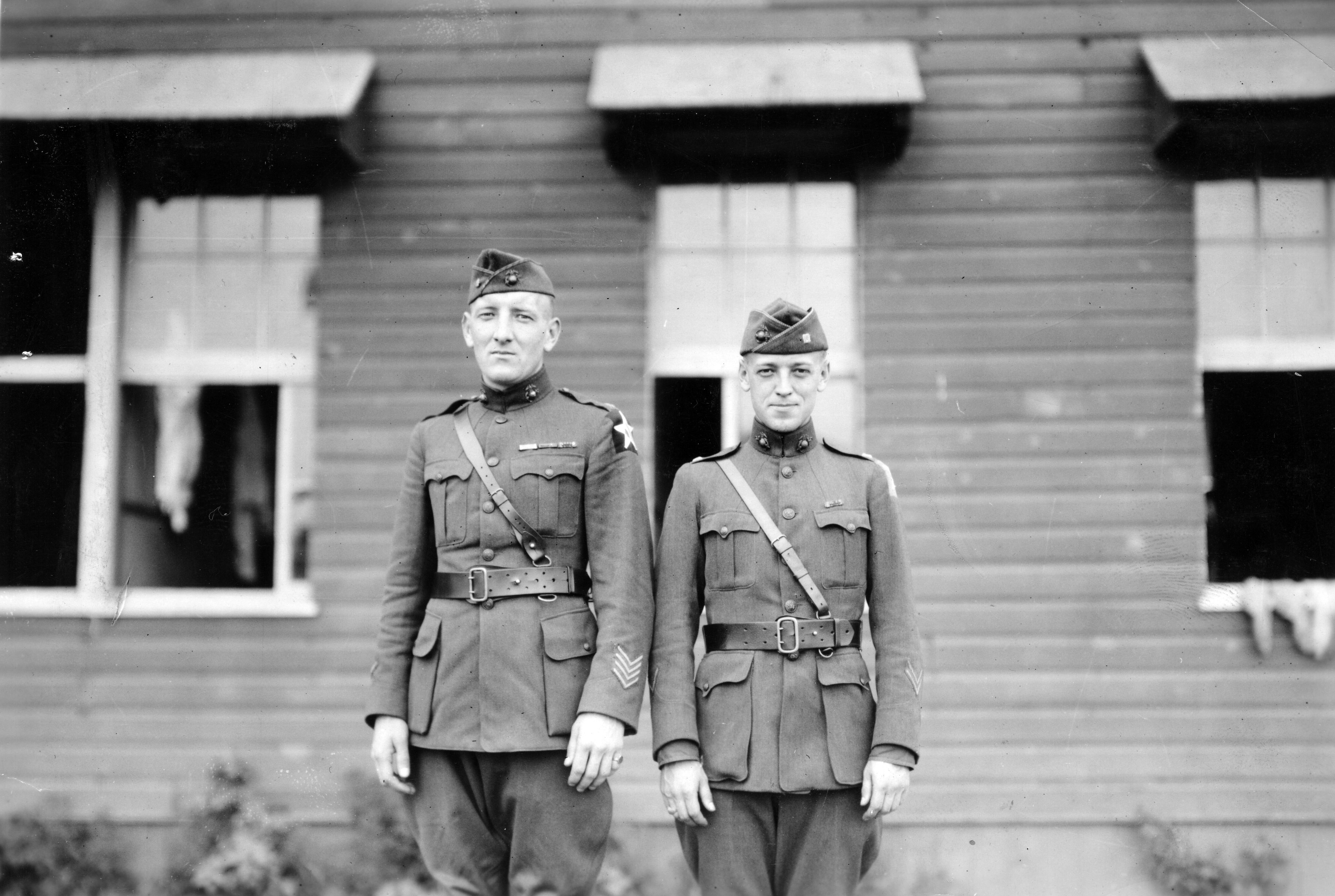 LeRoy Philip Hunt (March 17, 1892 – February 8, 1968) was a highly decorated officer in the United States Marine Corps with the rank of General. A veteran of World War I, he was decorated the Navy Cross and Army Distinguished Service Cross, the United States military's two second-highest decorations awarded for valor in combat.